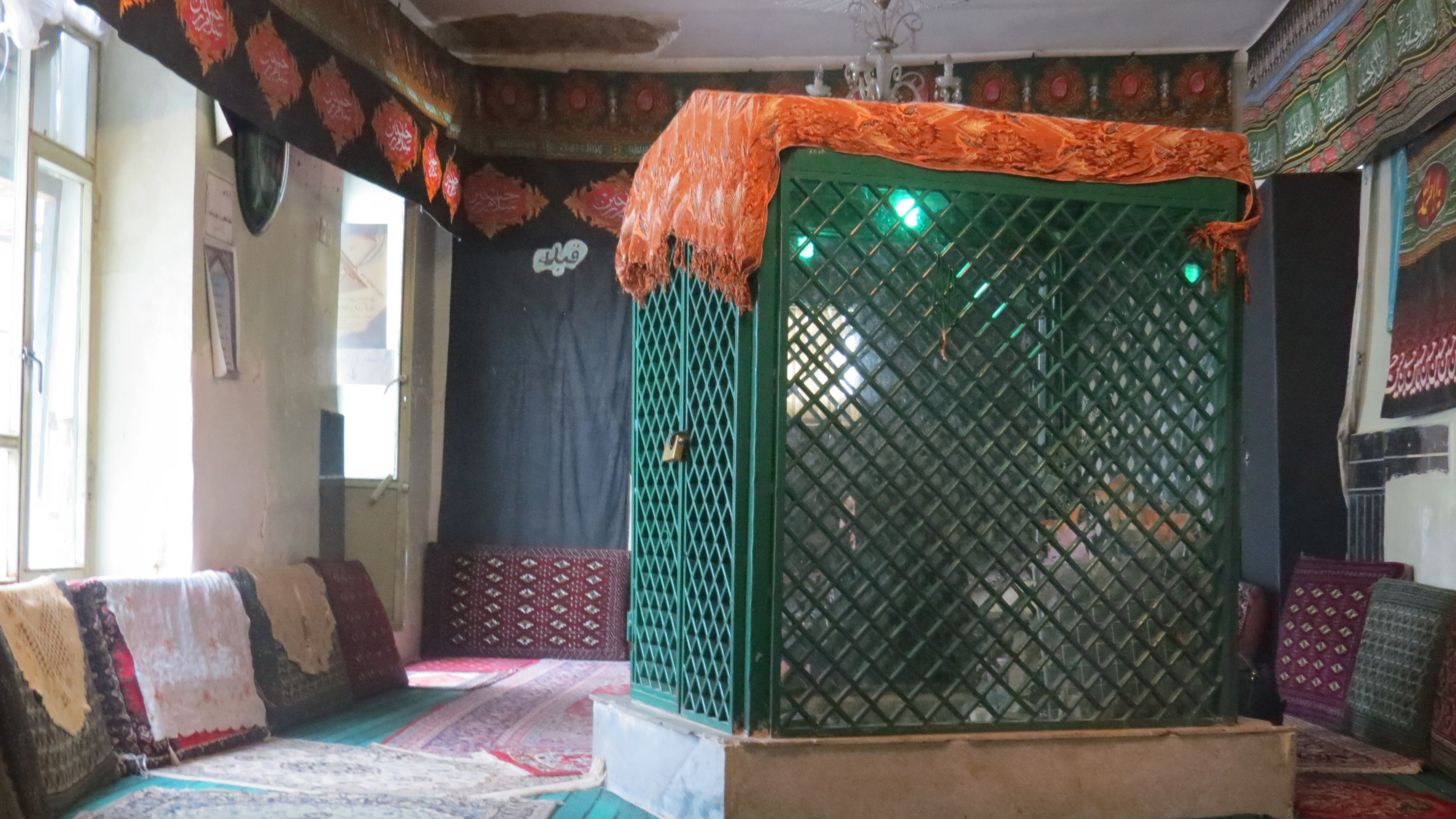 بقعه بی بی گرجی . همدان